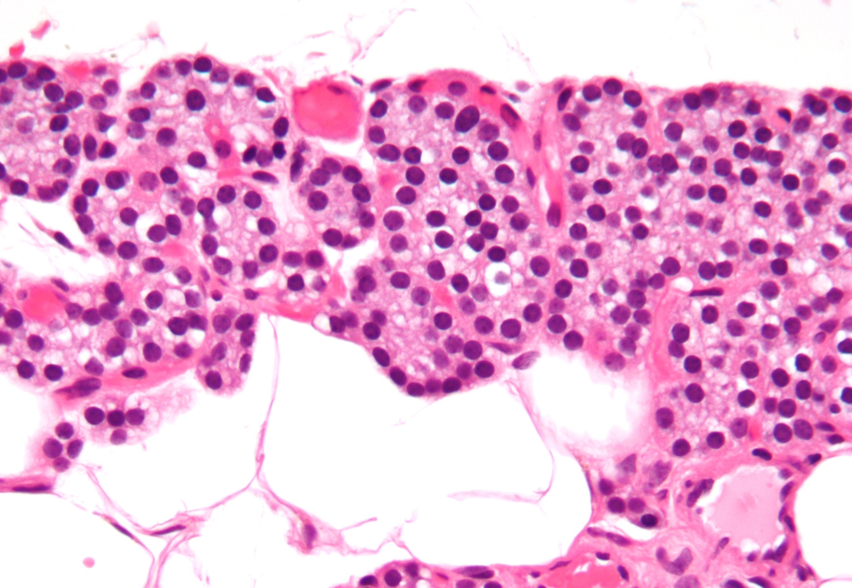 High magnification micrograph of the parathyroid gland. H&E stain. Excised surgically for parathyroid adenoma not shown. Cells of the parathyroid: Parathyroid chief cells - intense hyperchromatic to eosinophilic cytoplasmic staining (see notes), abundant in number, moderate amount of cytoplasm, function - manufacture PTH. Oxyphil cells - moderate/light hyperchromatic to eosinophilic, rare, abundant amount of cytoplasm, function - not known. Adipocytes - seen in older people, increases with age. Notes: Cytoplasmic staining varies considerably on H&E preparations - it may vary from hyperchromatic to clear to eosinophilic. Chief cells tend to stain more intensely than oxyphil cells. Related images Parathyroid gland Low mag. Intermed. mag. High mag. High mag. (cropped) High mag. (cropped) Parathyroid adenoma Low mag. Intermed. mag. High mag.